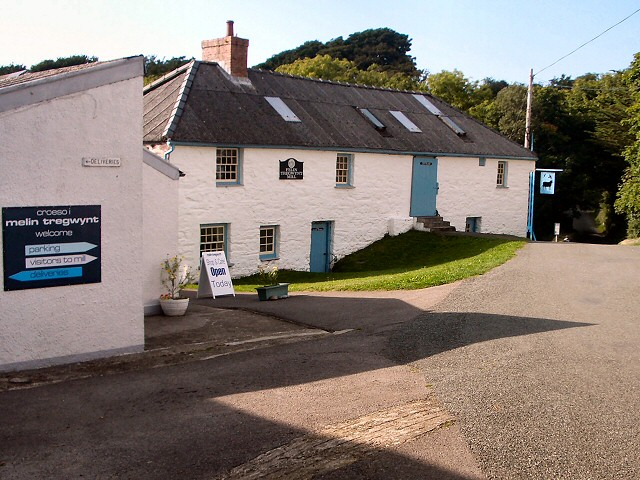 Tregwynt Woollen Mill. This working mill is open to the public, with a shop and tea room.